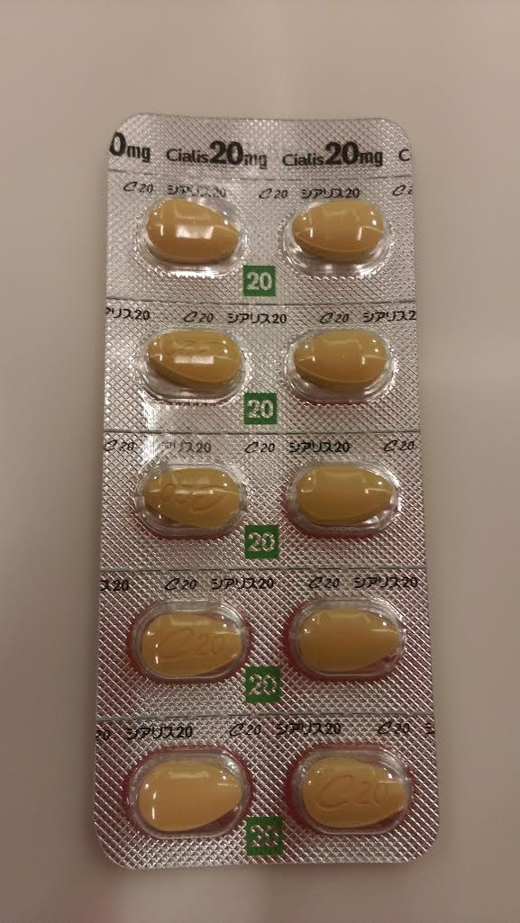 Cialis20mg